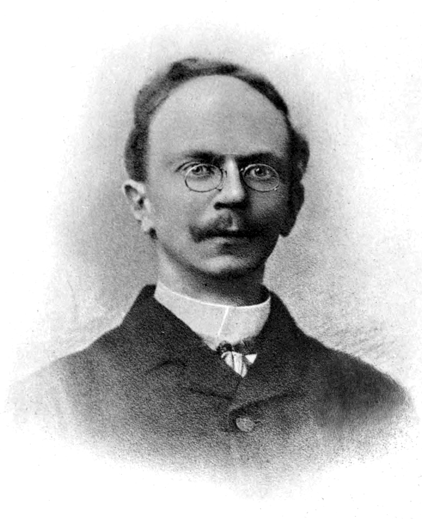 Photo of the orientalist Elias John Wilkinson Gibbl